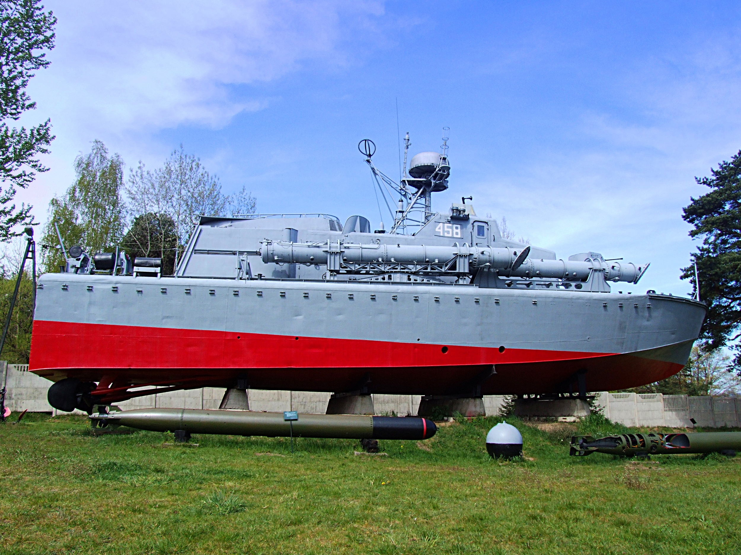 This picture was taken in The White Eagle Museum in Skarżysko-Kamienna